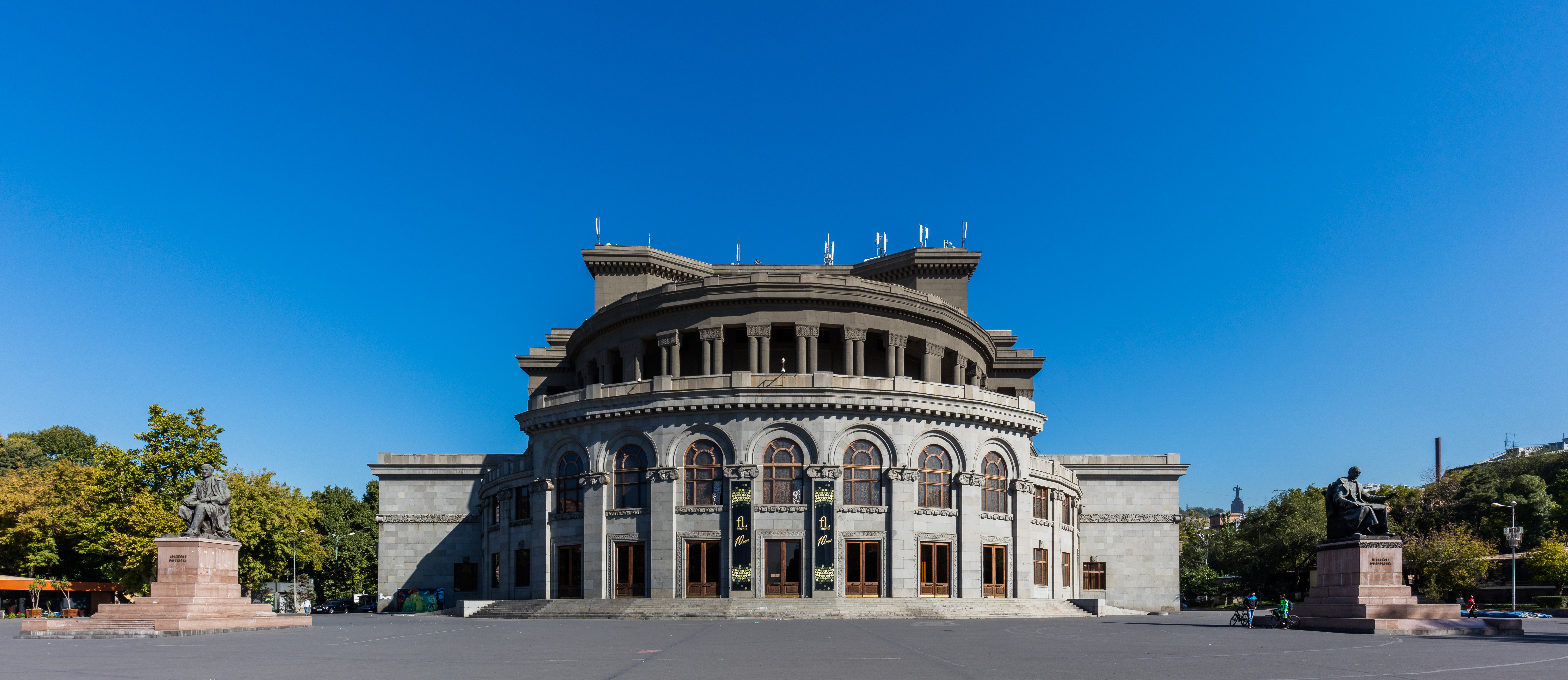 Opera Theatre, Yerevan, Armenia. The building, designed by the Armenian architect Alexander Tamanian, was officially opened in 1933 and consists of two concert halls: the Aram Khatchaturian concert hall with 1,400 seats and the Alexander Spendiaryan Opera and Ballet National Theatre with 1,200 seats.